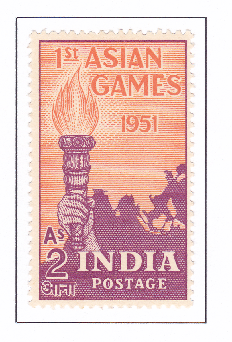 A commemorative postage stamp on 1st Asian Games issued on by India Post. Date of Issue: 4th March 1951 Denomination: 2 anna Category: Thematic